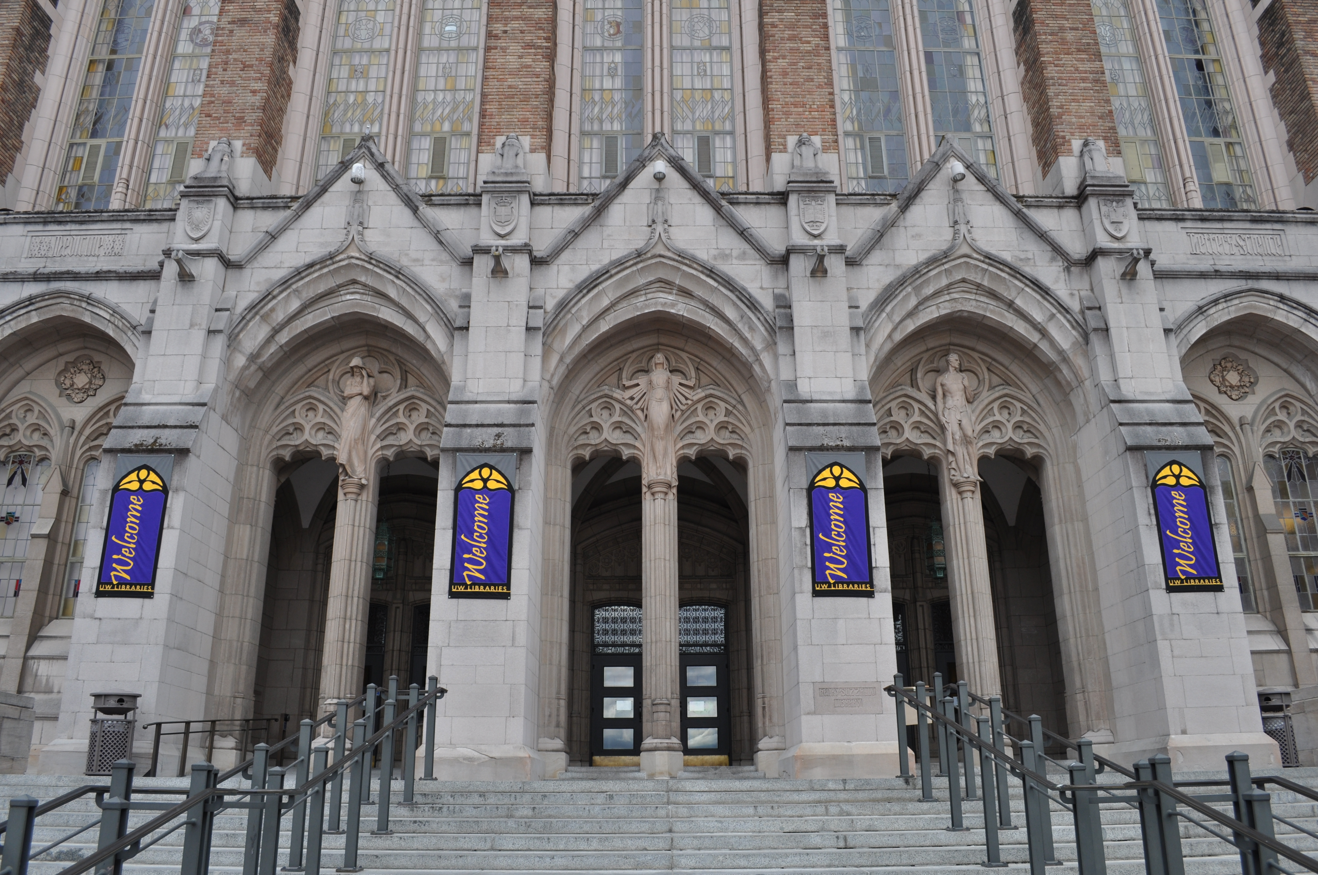 Main entrance of Suzzallo Library, University of Washington, Seattle, Washington.